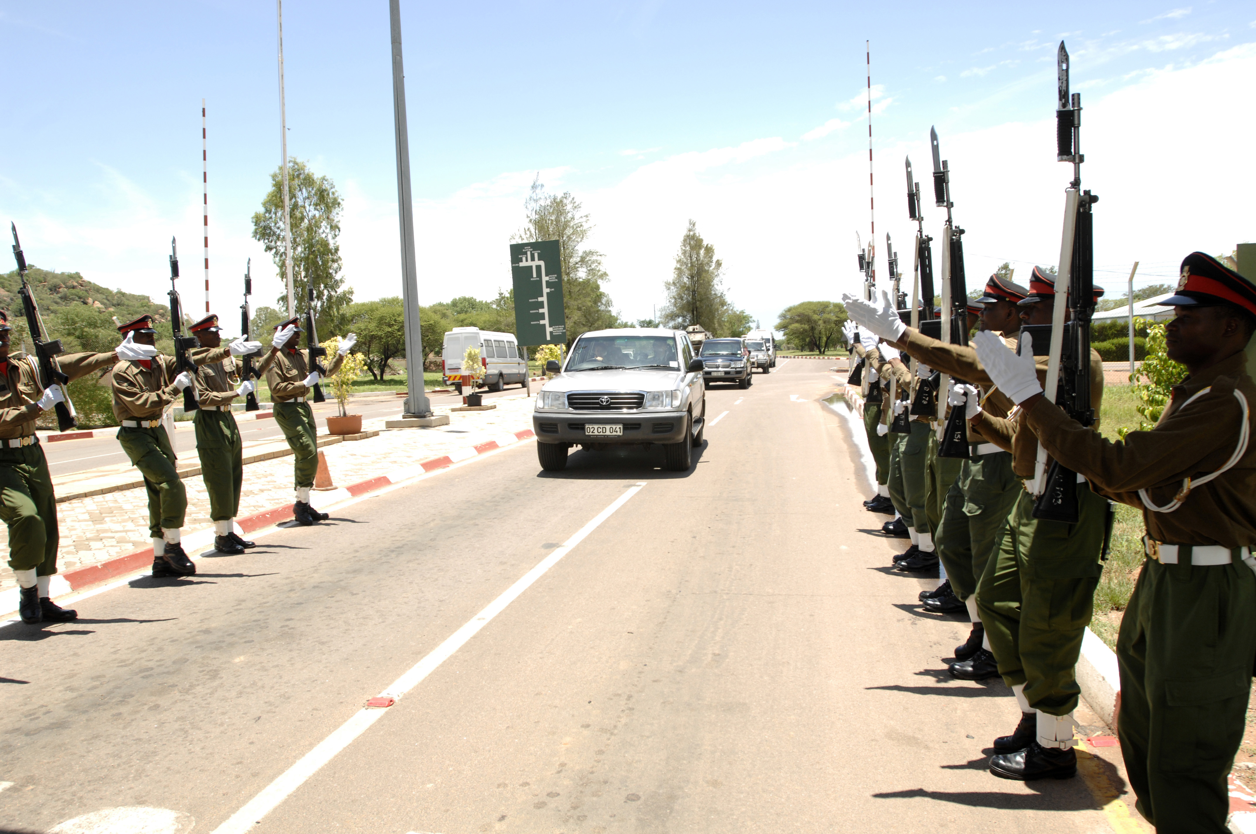 Members of the Botswana Defense Force come to attention as U.S. Army Gen. William Ward, commander of U.S. Africa Command, departs Sir, Setetse Khama Barracks in Gaborone, Botswana.